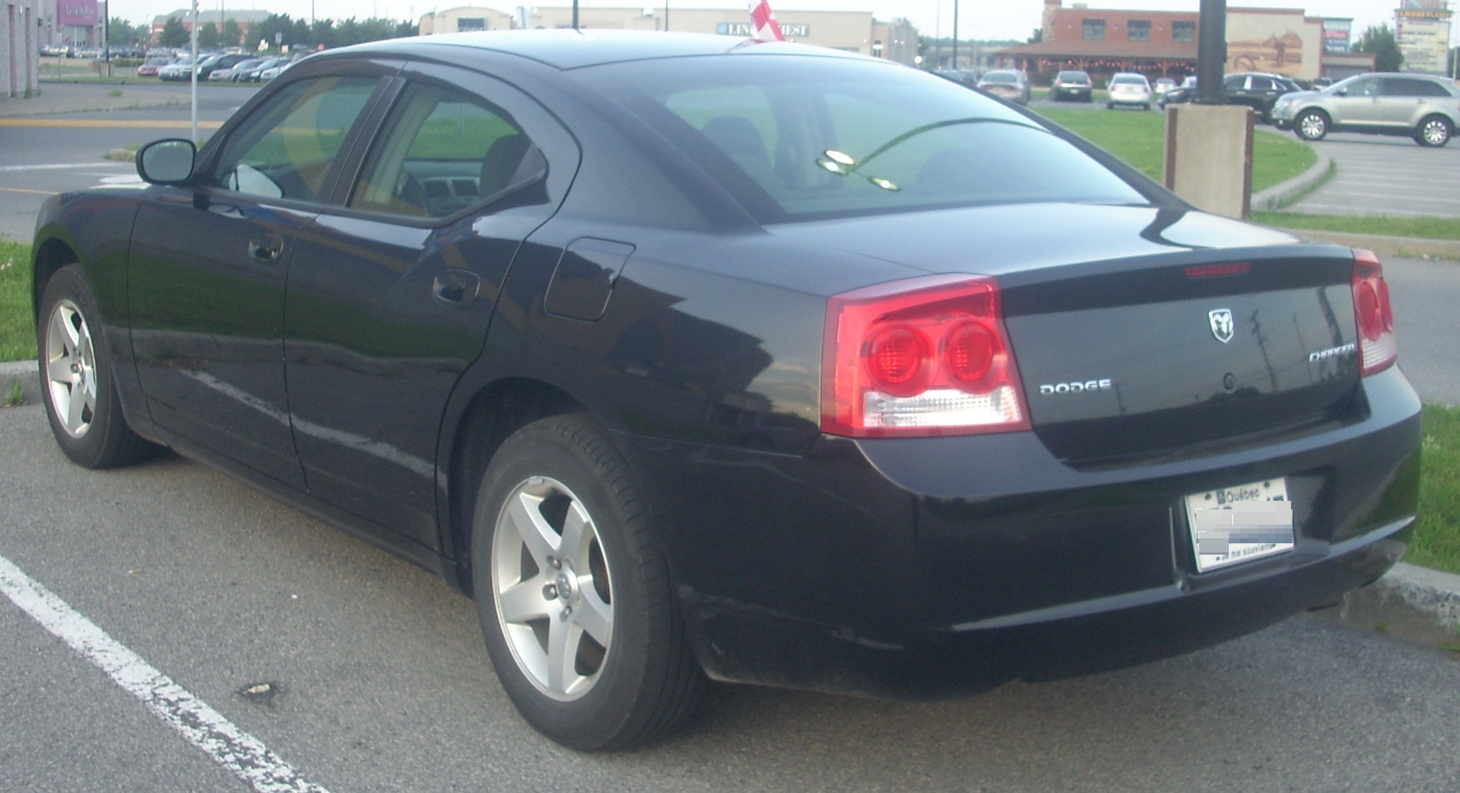 2009-2010 Dodge Charger photographed in Kirkland, Quebec, Canada.